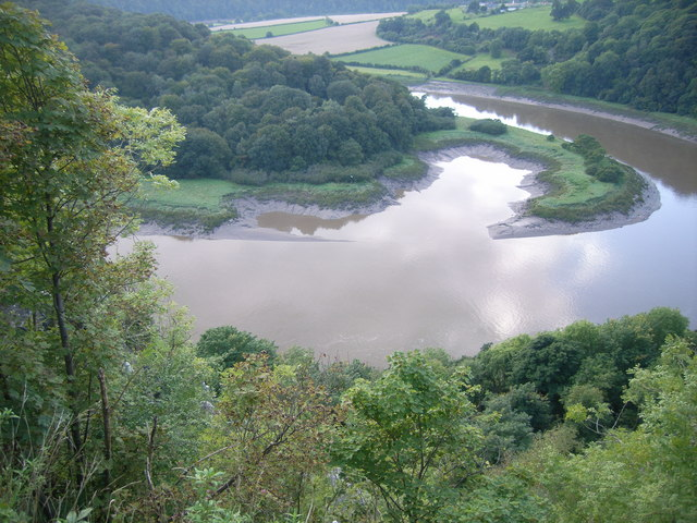 Aerial view of River Wye from Woodcroft